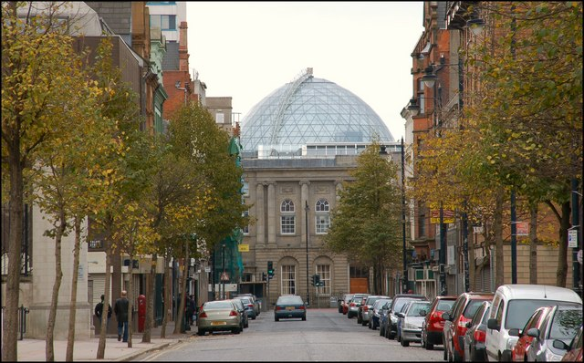 Donegall Street, Belfast. Donegall Street (lower) runs from Royal Avenue/York Street to Waring Street/Bridge Street 412508. The Victoria Square dome 563946 now forms an impressive background - a piece of architectural genius.